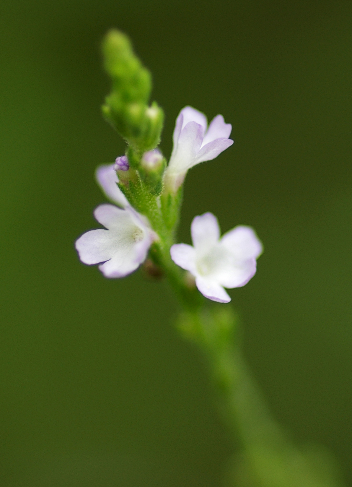 Lithospermum erythrorhizon flower